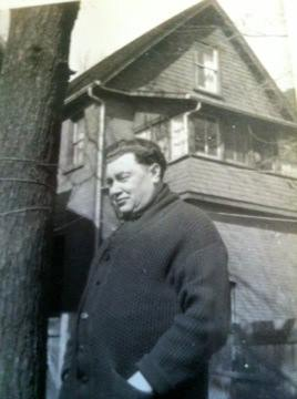 Abraham Rhinewine at approximately Age 40, near Toronto, Canada, approximately 1930.